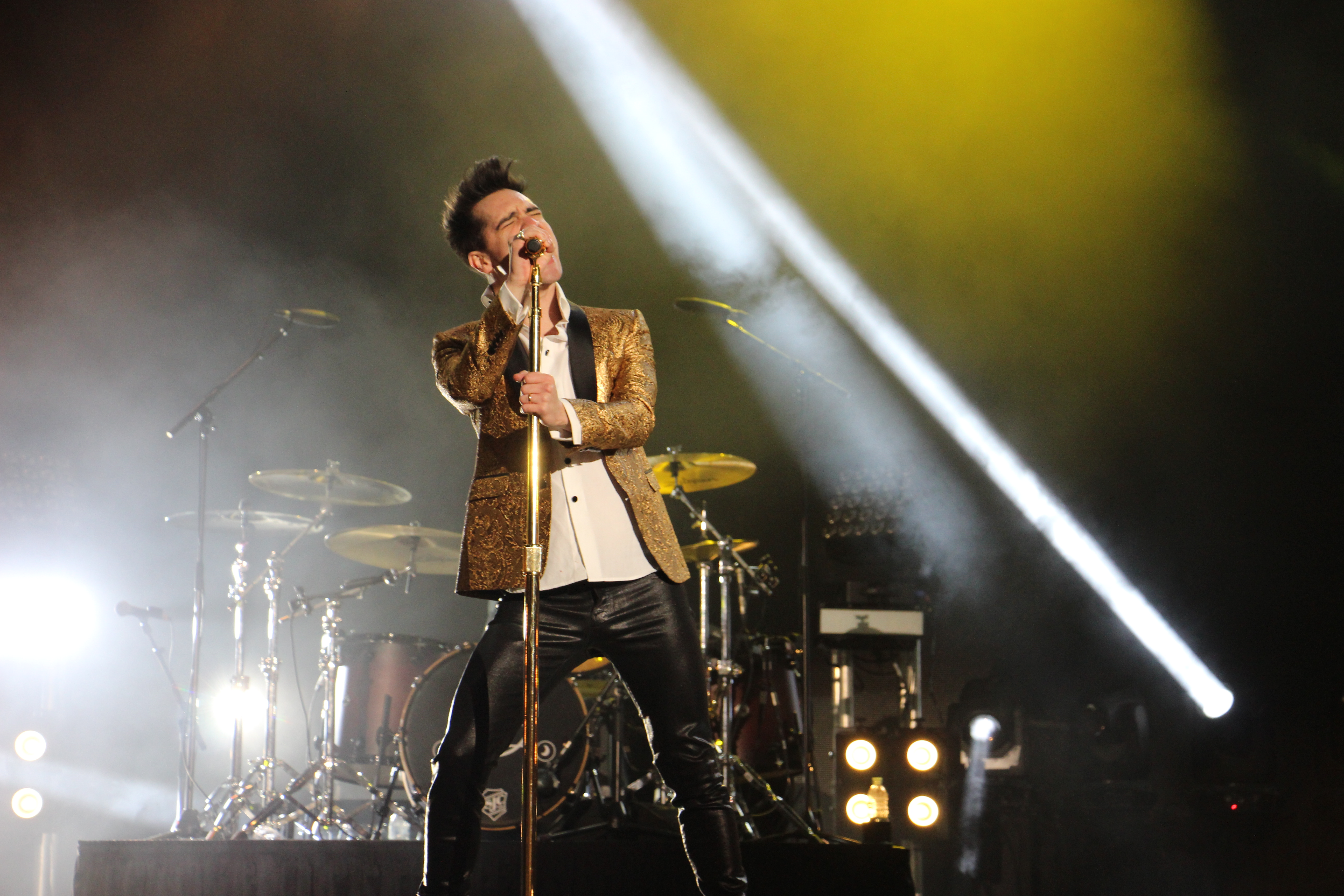 Brendon Urie from Panic! at the Disco rehearsing the night before the Allstate Fan Fest 2016 in New Orleans, an event that ties into the 2016 Sugar Bowl. The live show will also be broadcast as part of Dick Clark's New Year's Rockin' Eve 2017.